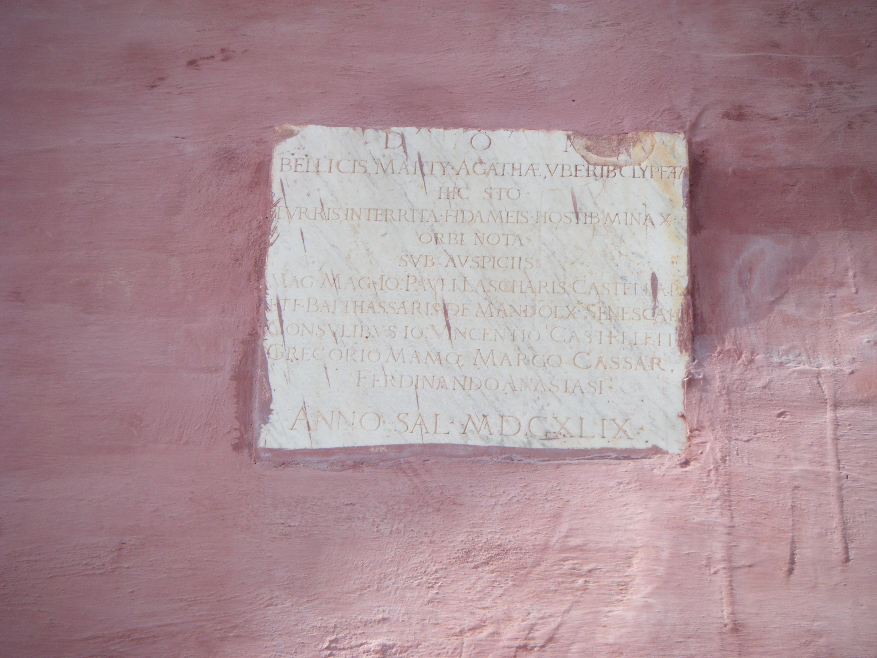 Inscription on top of front door of St. Agatha's Tower (Red Tower), Mellieha, Malta bearing the date 1649 This media is about Maltese cultural property with inventory number 33.